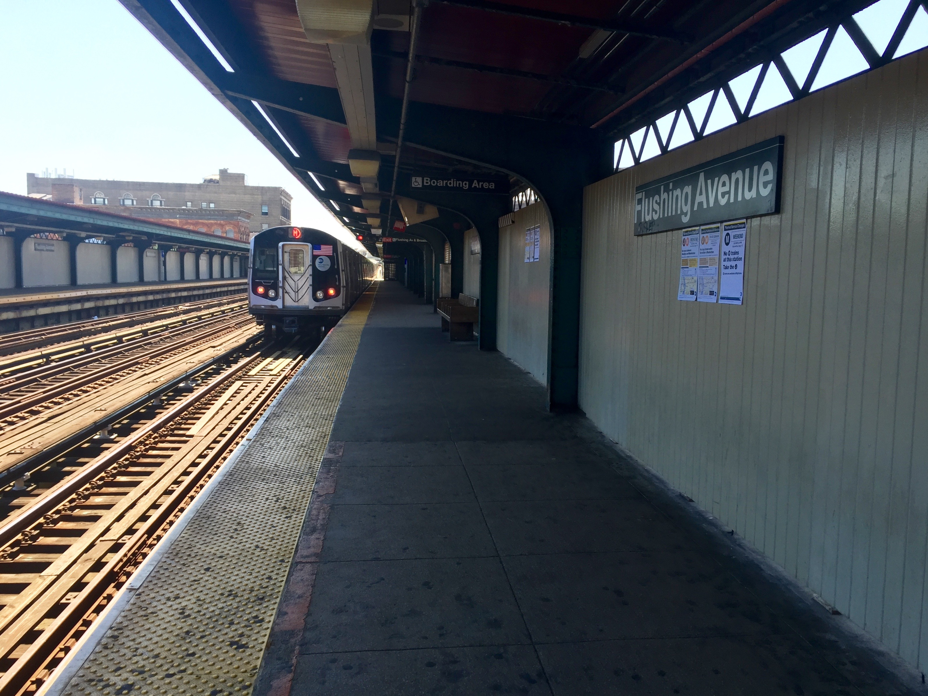 Jamaica Center/Metropolitan Avenue bound platform at Flushing Avenue on the J//M.